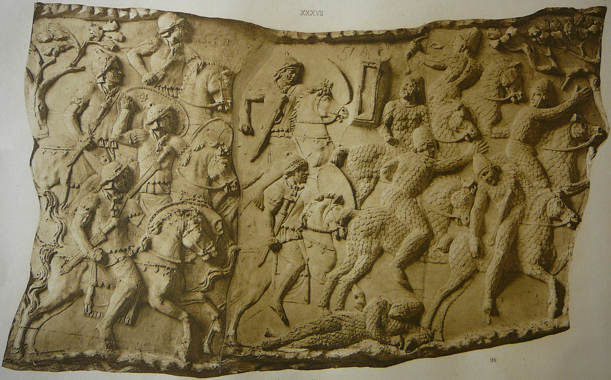 Cavalry battle against Sarmatians (scene XXXVII)